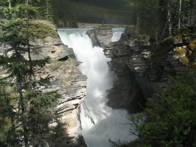 The power of the river Athabasca flowing into the linn at the Athabasca Falls.